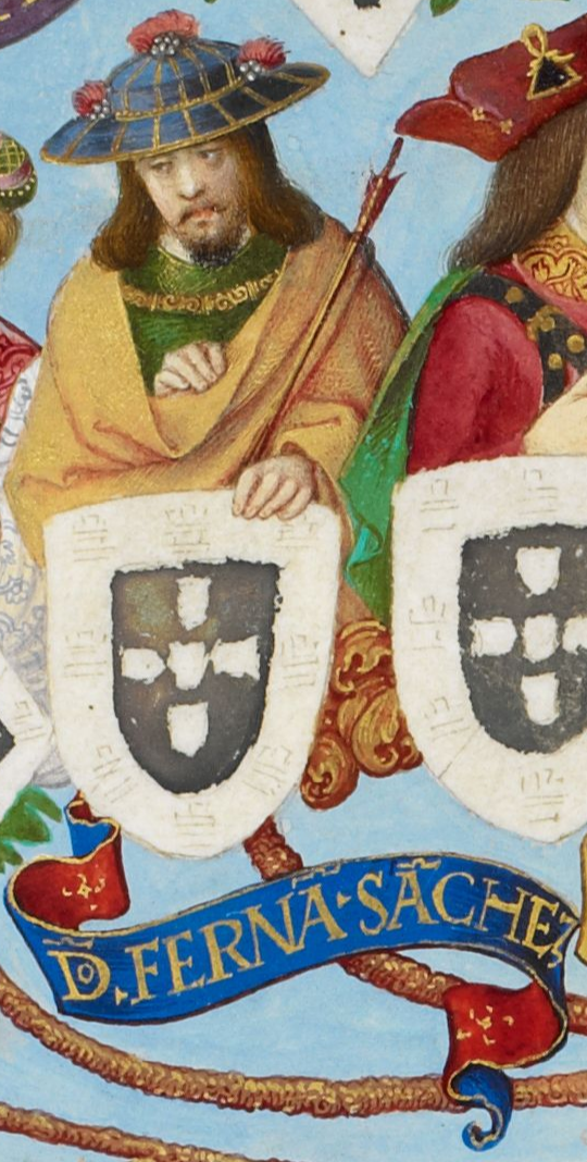 D. Ferdinand Sanchez (1280-1329), son of King Denis I of Portugal, in a 16th century miniature.